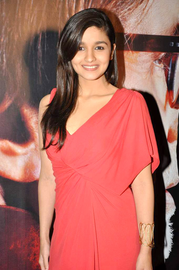 Alia Bhatt with 'Student Of The Year' teams visit to KBC 6 sets